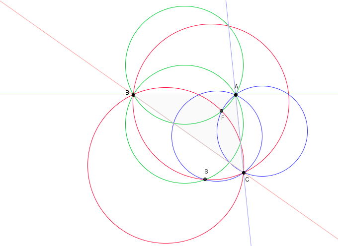 Isogonic centres and vesicae piscis